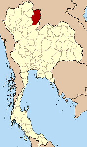 Map of Thailand highlighting Nan province